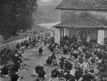 Original description: "The Mirediti at Prayer" (maybe a photo taken by Marubi)